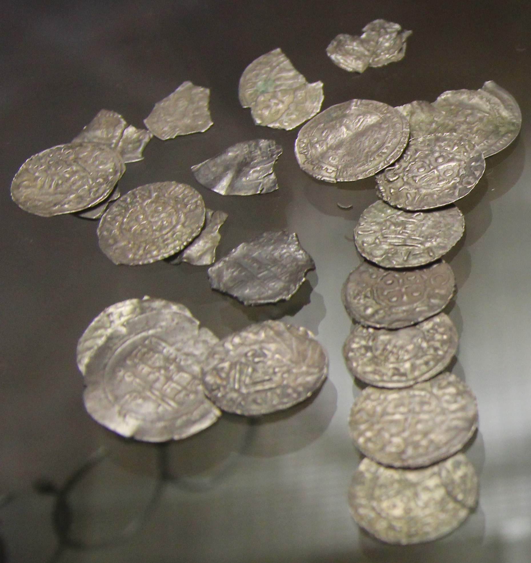 Coins from Kotowice treasure shown in Archeological Museum in Wroclaw.